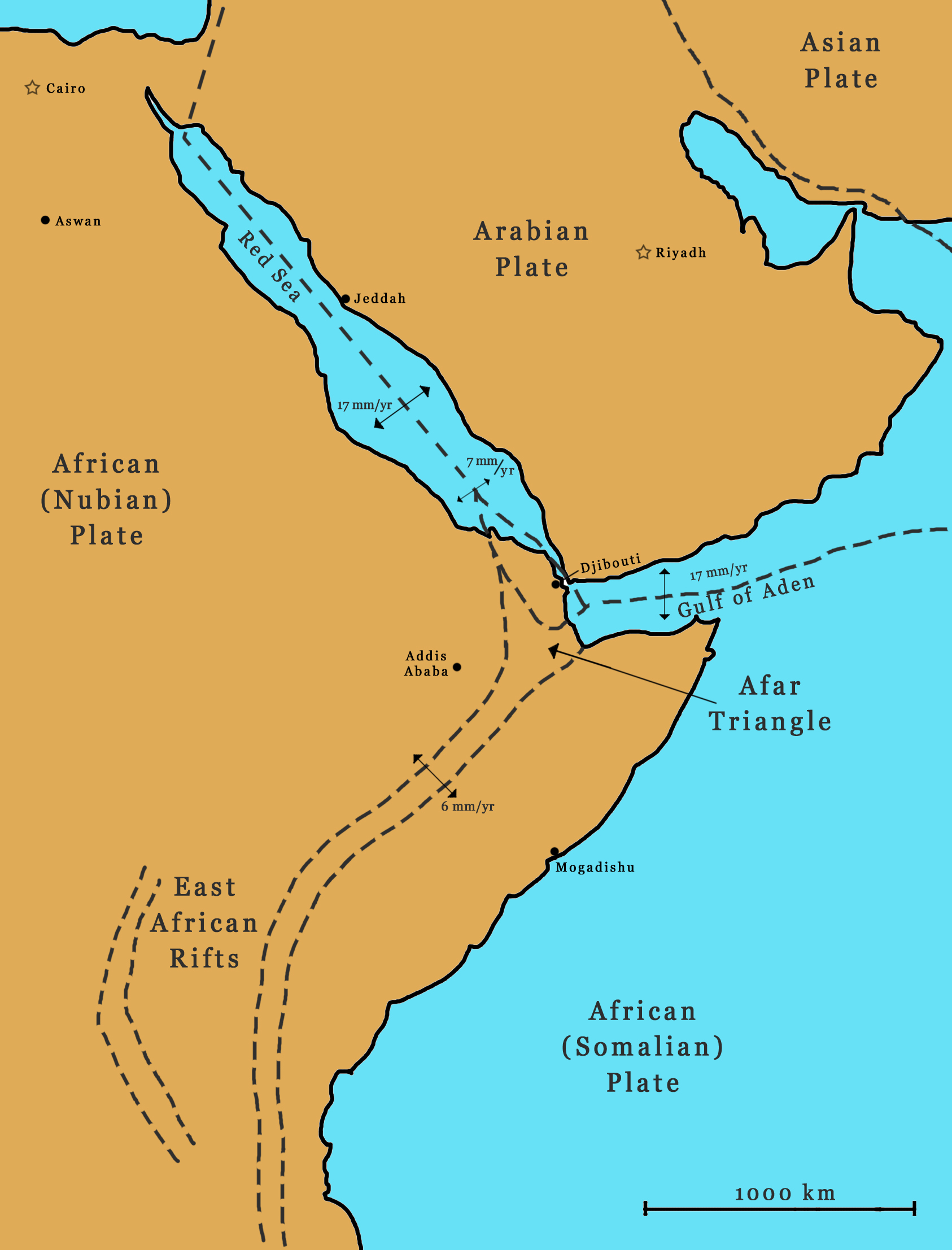 Regional map of the Afar Triangle showing the spreading rates of the three limbs (East African Rifts, Red Sea Rift and Aden Ridge)